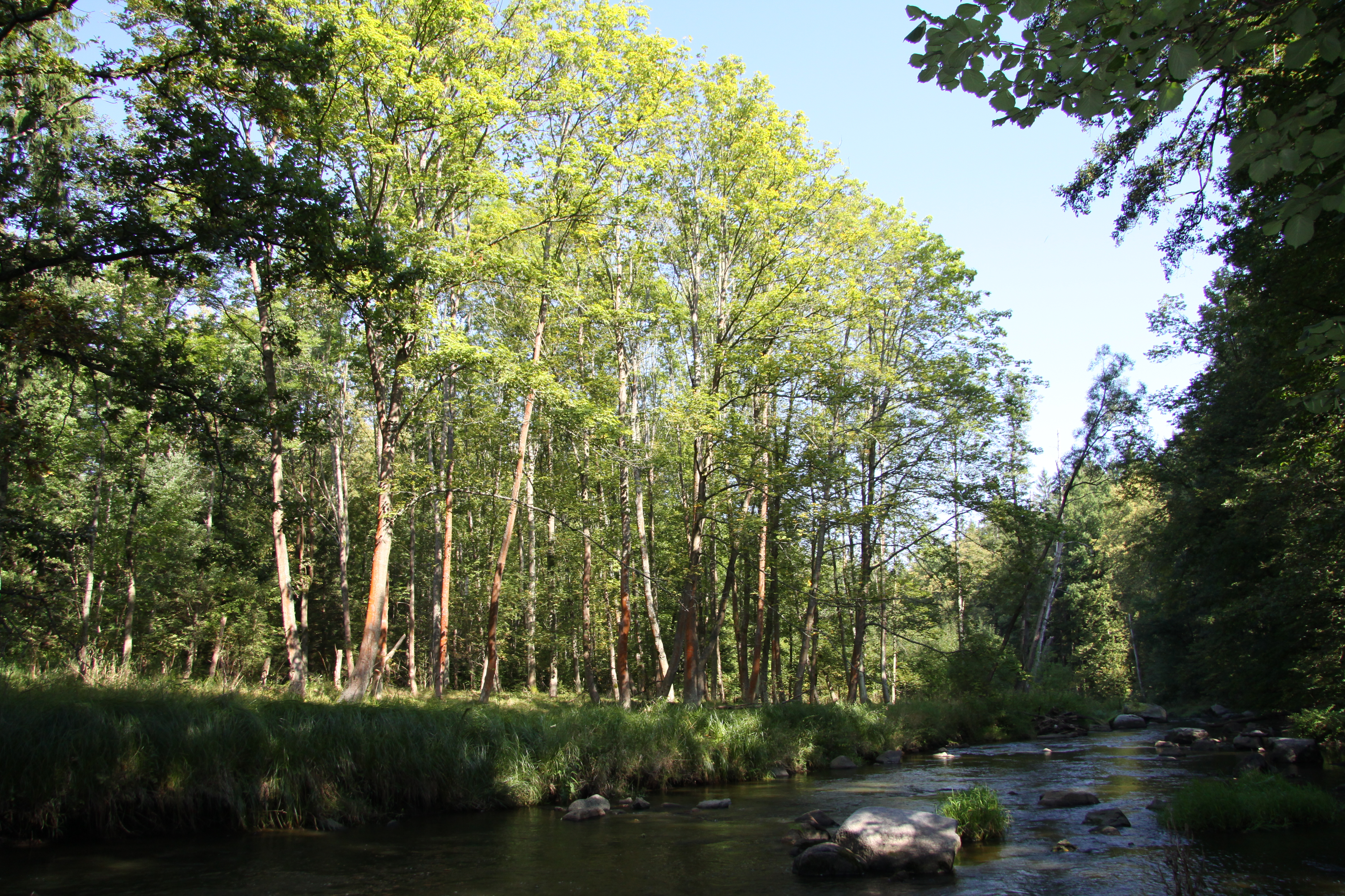 Natural monument V Obouch with Lomnice River in Písek District, Czech Republic.